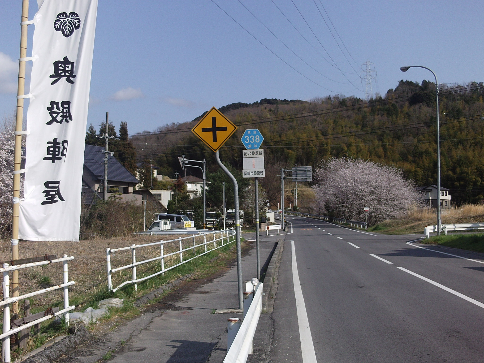 Aichi prefectural road No.338 in Kuwabaracho, Okazaki, Aichi.